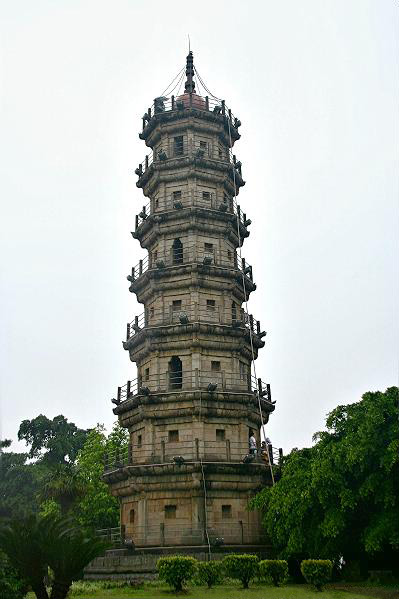 Luoxing Pagoda，in Mawei, Fuzhou, Fujian, China.